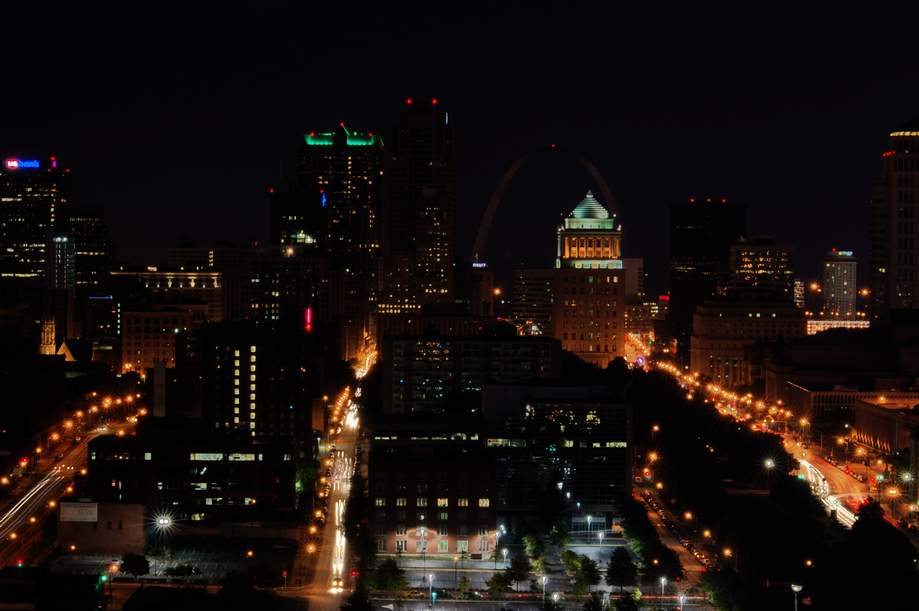 Saint Louis Skyline